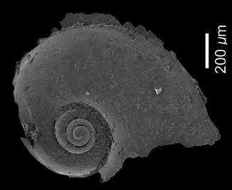 Apical view of the shell of Atlanta lesueurii from the Pliocene. Locality: Roxas, Pangasinan, Luzon, Philippines. Registration number (RGM) 539 764.